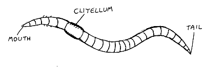 Simple diagram showing the location of the head, tail, and clitellum on an earthworm. Diagram edited using the Gimp.